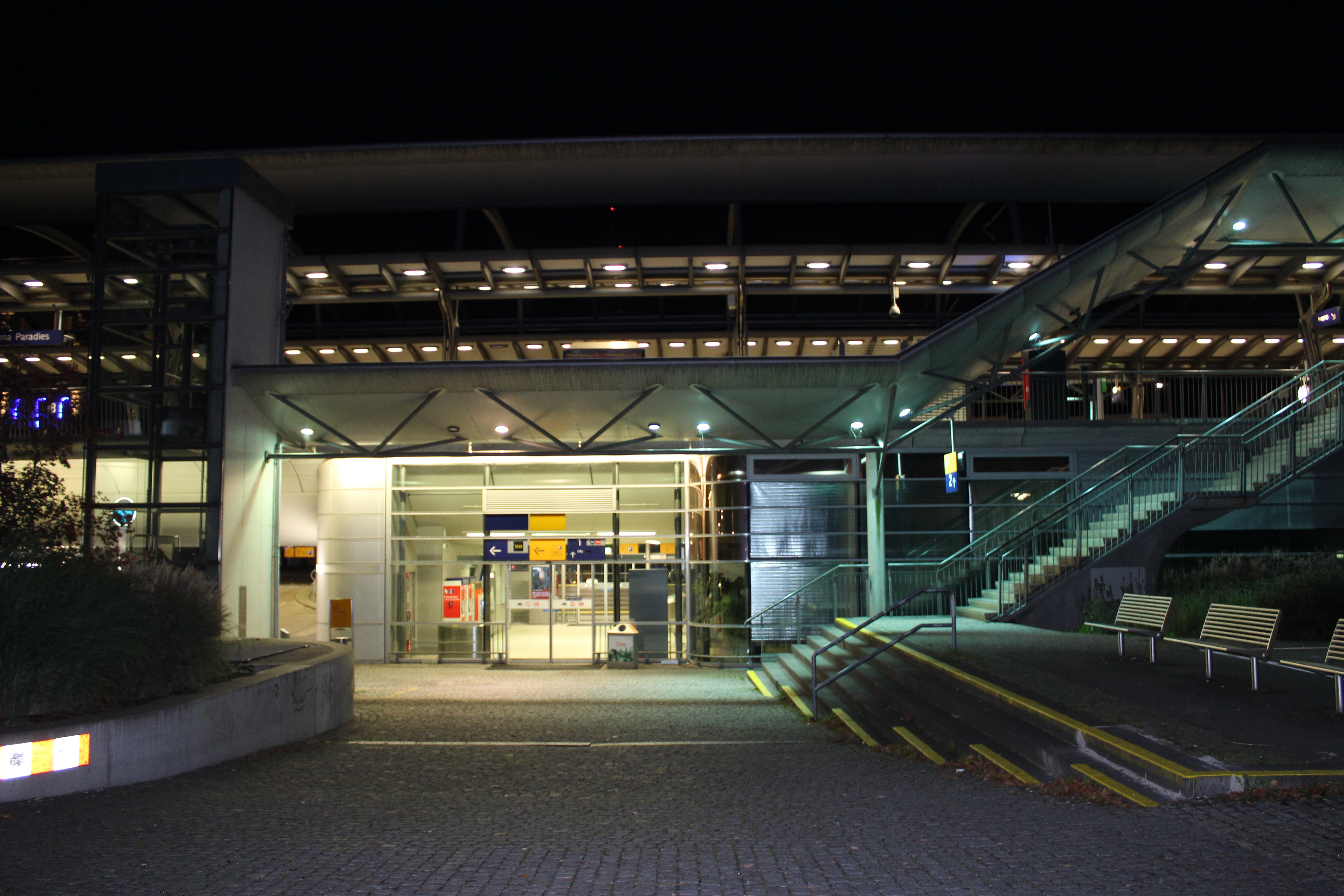 train station Jena Paradies, eastern entrance